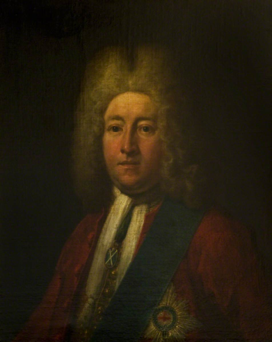 John Erskine, 6th Earl of Mar, K.T., (d.1732), bust-length, in a red coat with the Badge of the Order of the Garter and Sash and Badge of the Order of the Thistle. This is a bust length oil painting of John Erskine, the 6th Earl of Mar, K.T. The Earl is shown in a red coat with the Badge of the Order of the Garter and Sash and the Badge of the Order of the Thistle. Erskine was born at Alloa in Clackmannanshire in 1675, by 1696 he was a member of Parliament and served on the Scottish Privy Council a year later. He played a key role in negotiations of the Treaty of Union between England and Scotland in 1707 and also later served as Secretary of State for Scotland. Erskine earned himself the nickname ‘Bobbing John’ due to his frequent switching of political alliances between the Tories and the Whigs. After falling from favour following the accession of King George I in 1714, Erskine became an ardent Jacobite and participated in the 1715 Jacobite rebellion. His poor military leadership at the Battle of Sherifmuir, however, saw him flee to France in exile. This portrait was probably completed during his exile. The artist, Hyacinthe Rigaud was a French painter, draftsman and one of the foremost portrait painters of the later years of the reign of Louis XIV. We see the influence of Anthony van Dyck in the realistic and lifelike features of the Earl’s portrait and his pose but also Rigaud’s own development of the portrait d’apparat, or state portrait, bringing a greater formality to the understated elegance of the portrait tradition of van Dyck. The style that Rigaud established continued to dominate official portraits in France into the 18th Century.